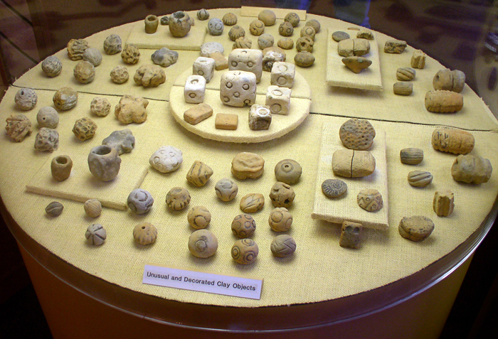 A photo of clay utensil found at the Poverty Point site in Northeastern Louisiana